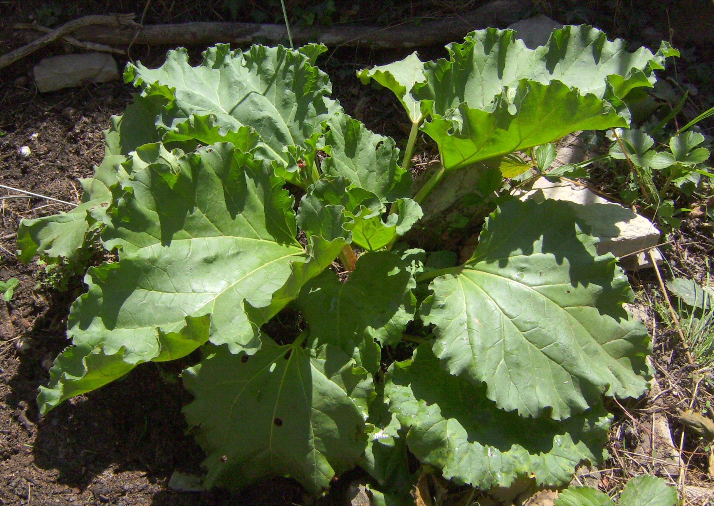 Rhubarb plant (Rheum rhabarbarum) growing in Castelltallat, Catalonia